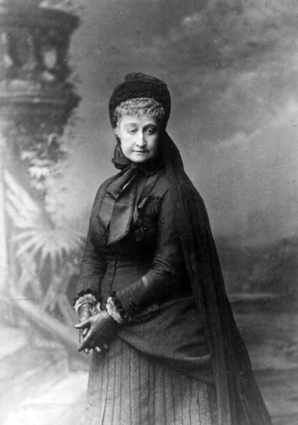 The Empress Eugénie in mourning